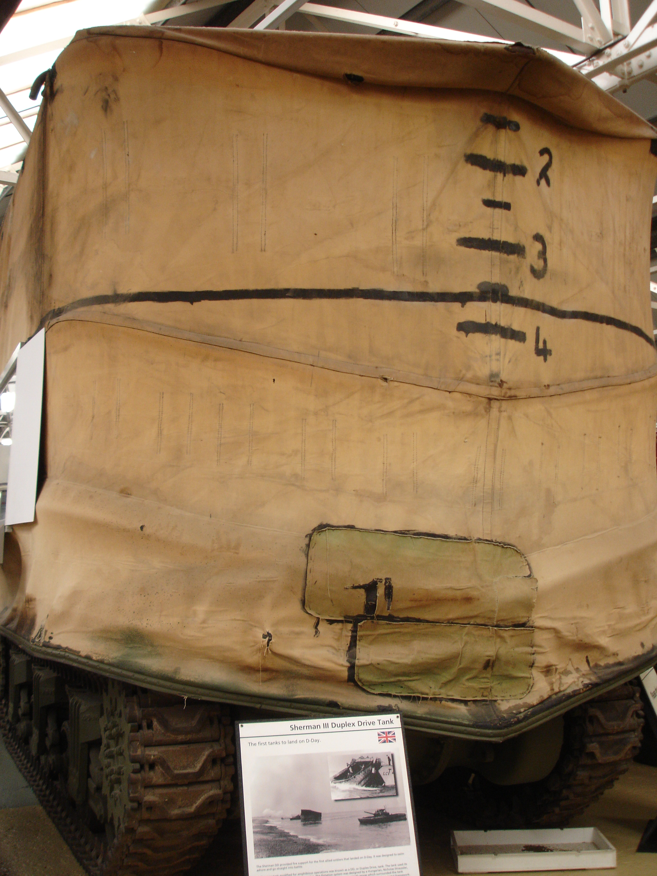 Front portion of Surviving Sherman DD tank including canvas flotation screen, at Bovington Tank Museum.